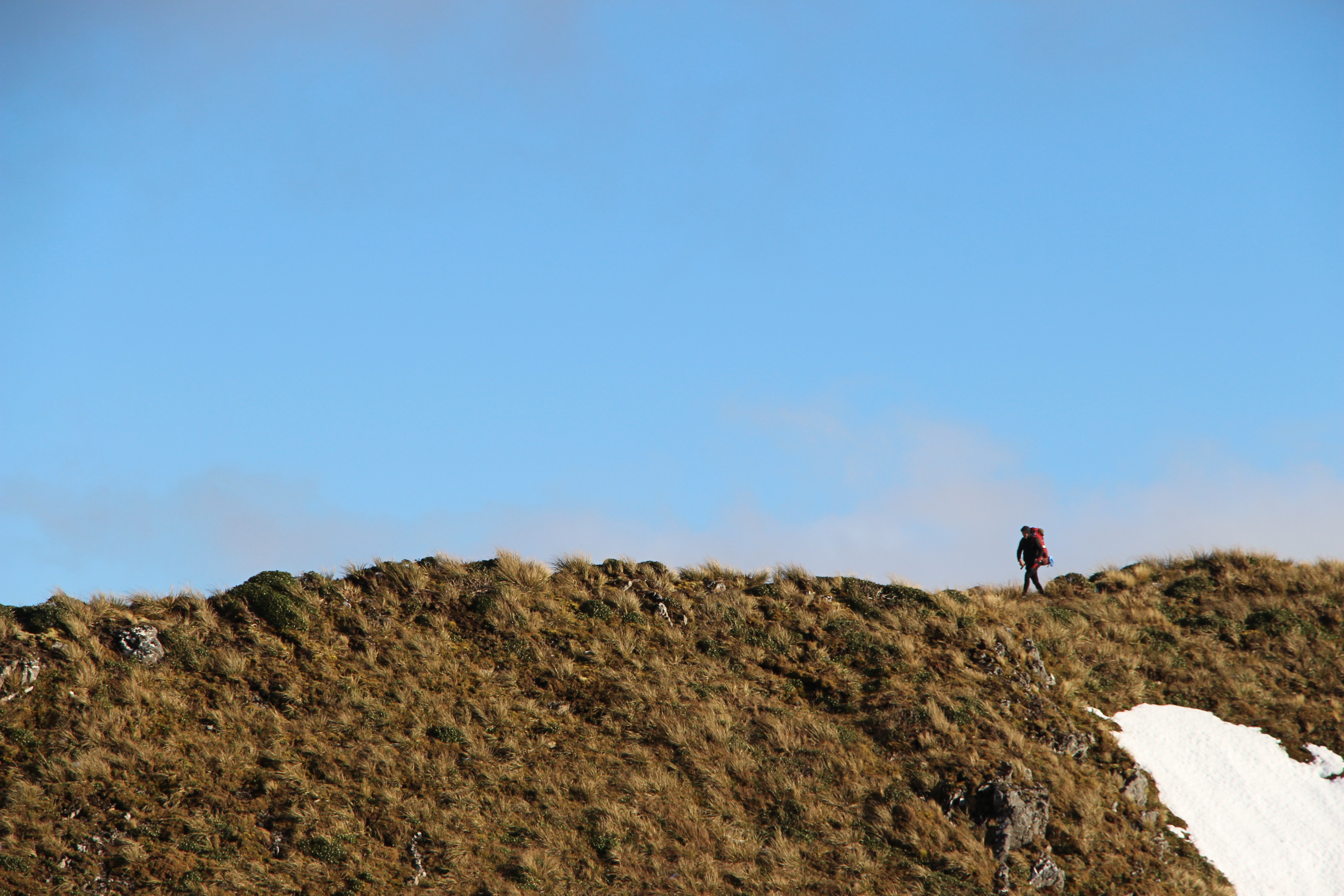 A tramper walking on the ridge. Southern Crossing Tramping track, Tararua Range, New Zealand.